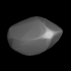 3D convex shape model of 1379 Lomonosowa, computed using light curve inversion techniques. J. Hanuš, J. Ďurech, M. Brož, B. D. Warner (June 2011). "A study of asteroid pole-latitude distribution based on an extended set of shape models derived by the lightcurve inversion method". Astronomy and Astrophysics 530: A134. ISSN 0004-6361. arXiv